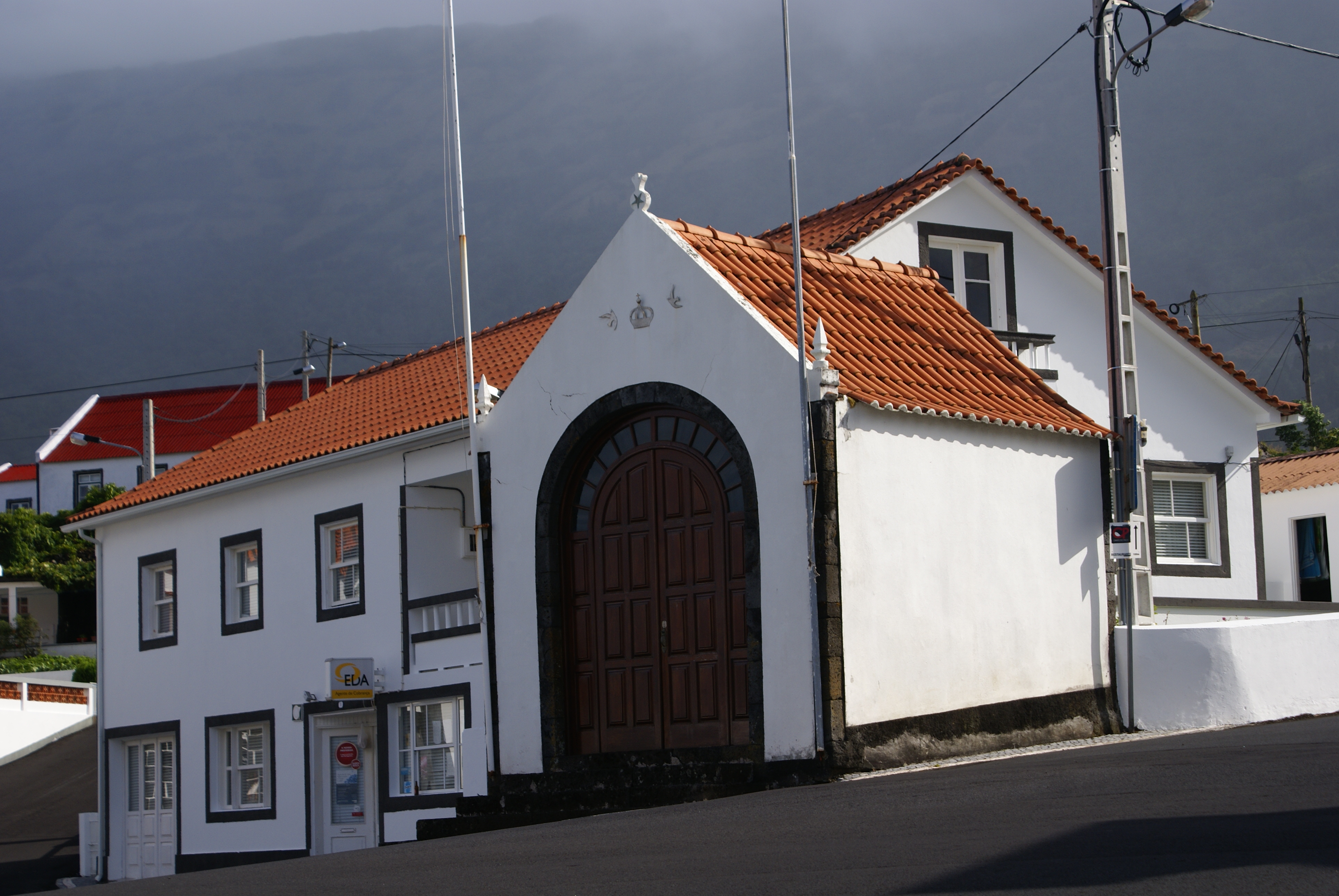 Império do Espírito Santo da Prainha, concelho de São Roque do Pico, ilha do Pico, Açores, Portugal